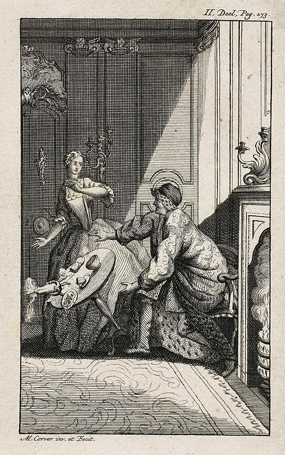 Print by Dutch actor and artist Marten Corver of 1751 depicting a coffee table being pushed over.